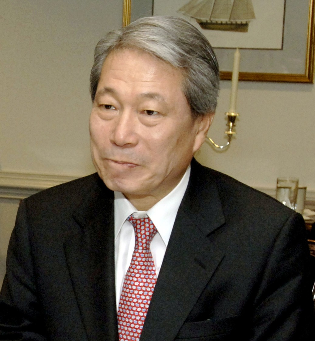 South Korean Minister of Foreign Affairs and Trade Yu Myung-hwan, cropped from photo with South Korean Ambassador to the United States Lee Tae-sik meeting Secretary of Defense Robert M. Gates in the Pentagon.